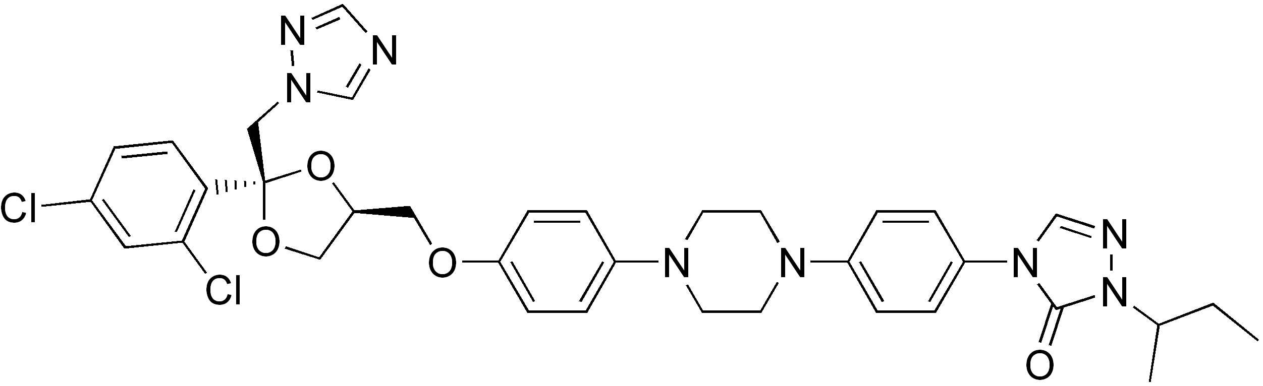 chemical structure of itraconazole